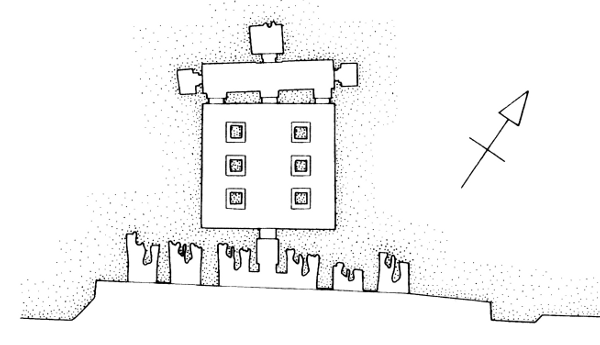 Map of the Little Temple of Abu Simbel